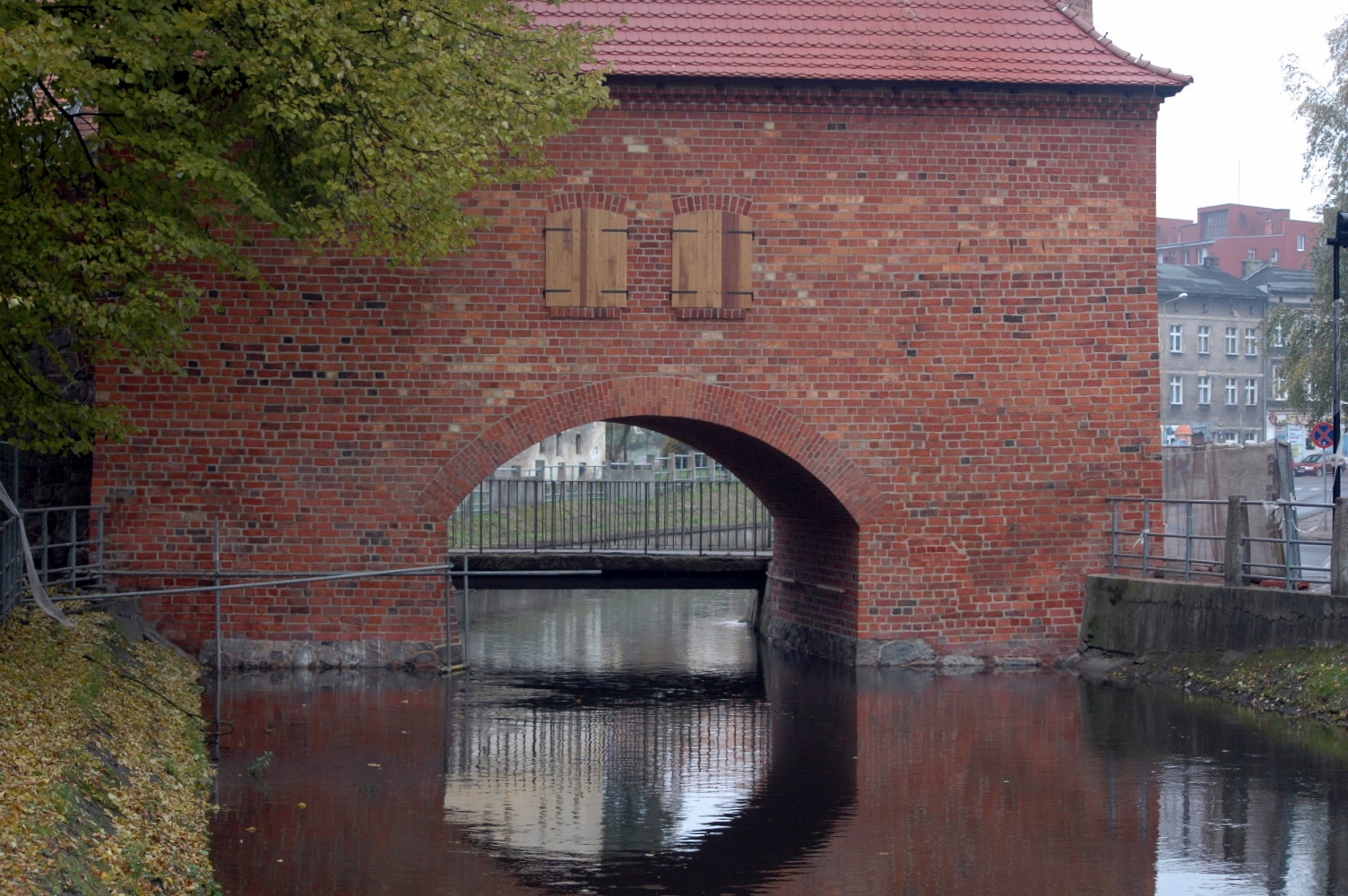 Harbor Gate in Stargard Szczeciński